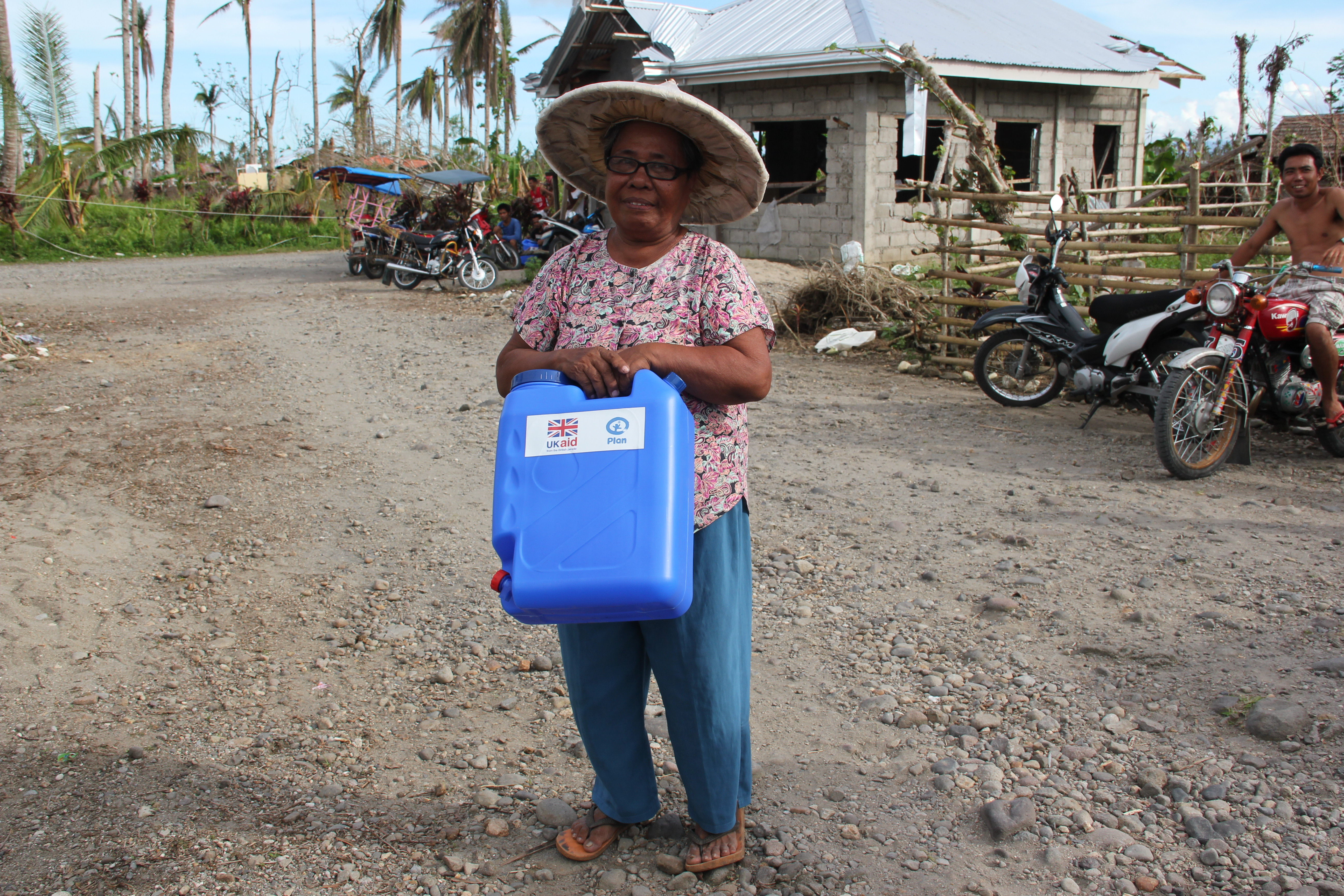 "A tree fell on my house during the typhoon – my husband and I are old and we were very frightened", says Isabel, aged 68, a resident of the small barangay (village) of Santo Nino, on Leyte Island. "I only have a bucket for water at the moment and the water here isn't clean after the typhoon, so this jerrycan will help us a lot. It means we can store clean water that will be safe to cook with and drink." In addition to distributing items like jerrycans, purification tablets, hygiene kits and tarpaulins, UK aid is also helping Plan to provide clean drinking water and constructing pit latrines for at least 100,000 people. Damaged infrastructure means clean water is in short supply. For full details on how the UK is helping the Philippines respond to Typhoon Haiyan, please Picture: Jess Seldon/Department for International Development